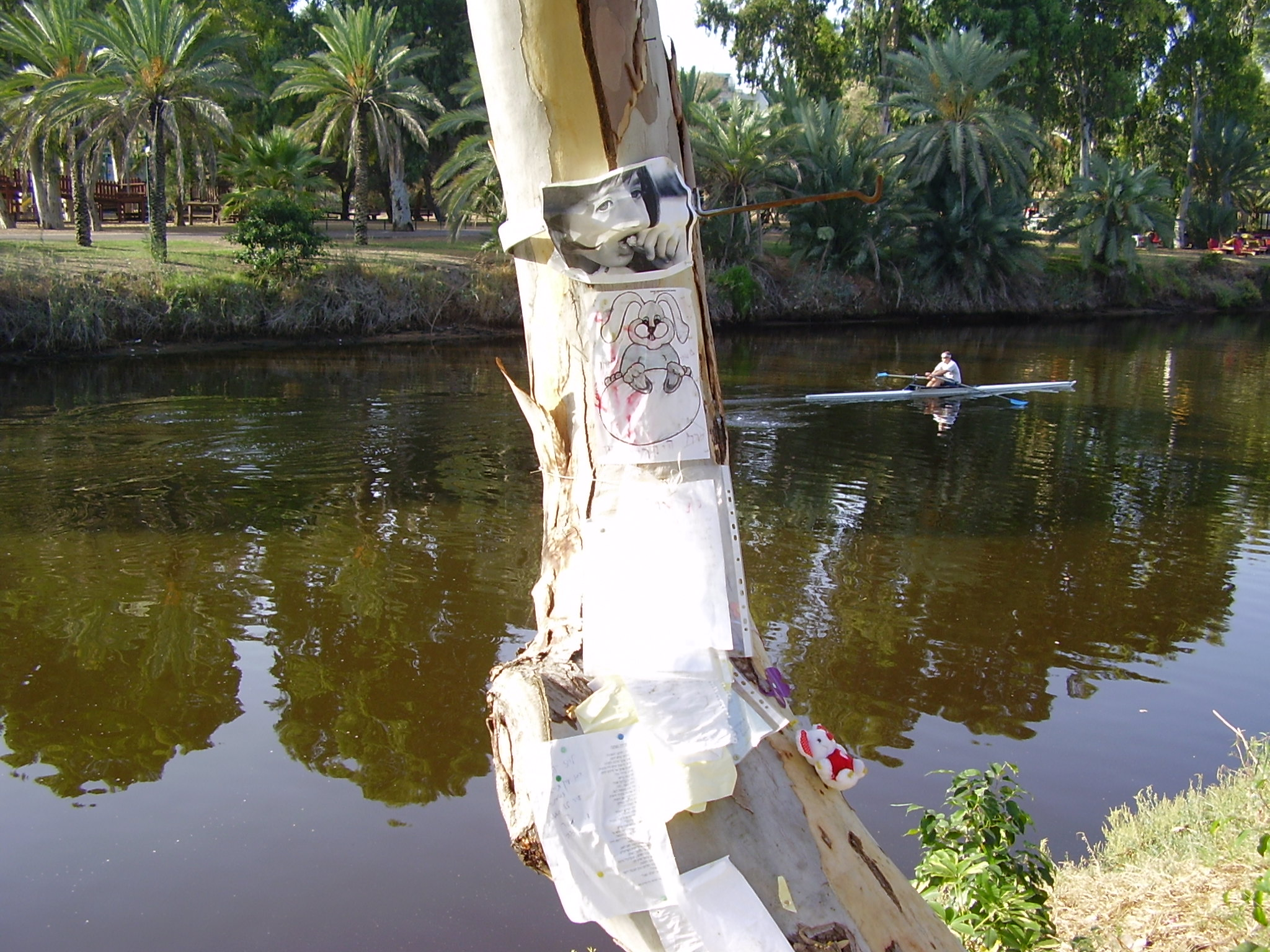 yarkon river